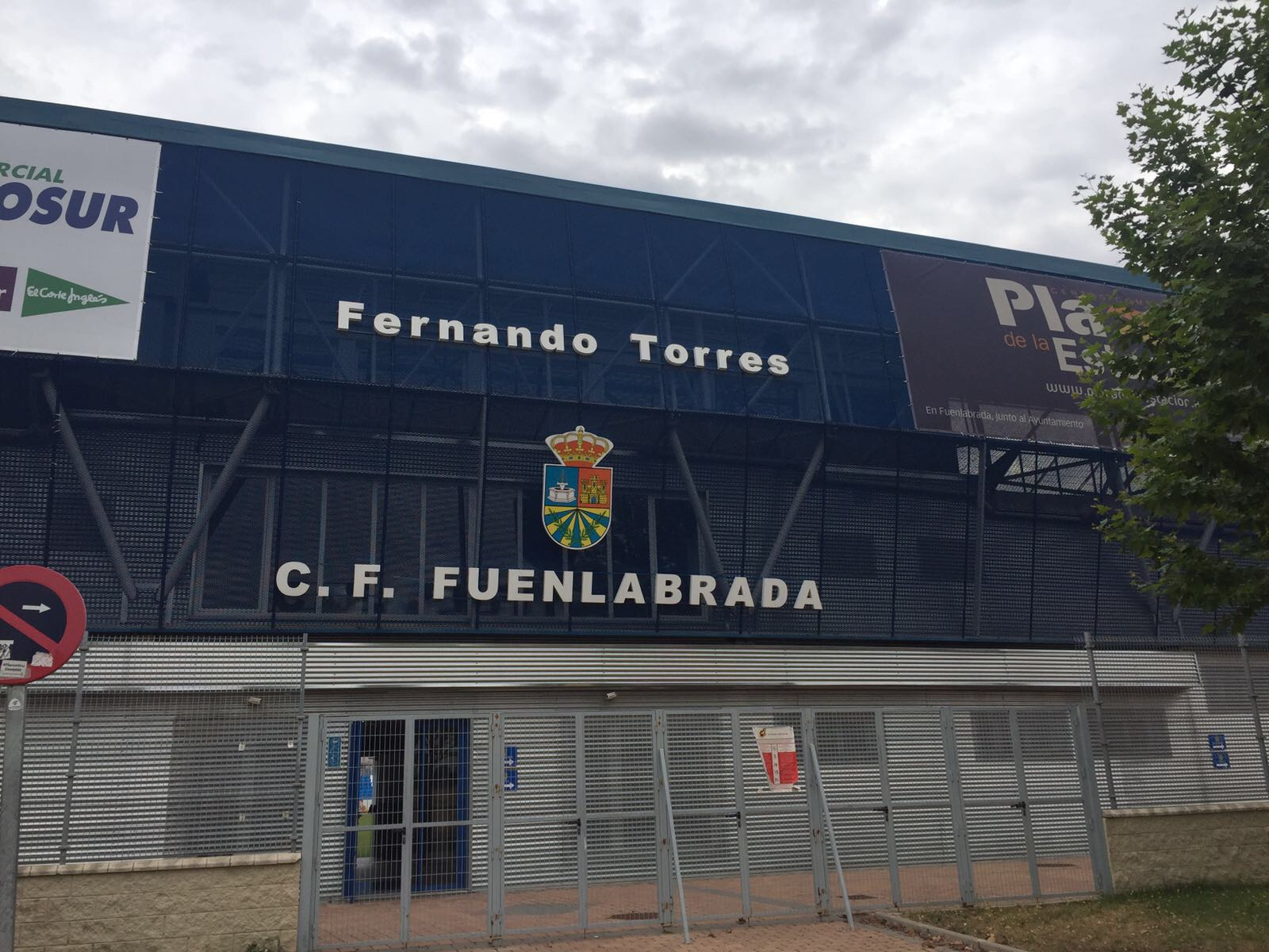 Fernando Torres Municipal Stadium in Fuenlabrada, Community of Madrid, Spain.